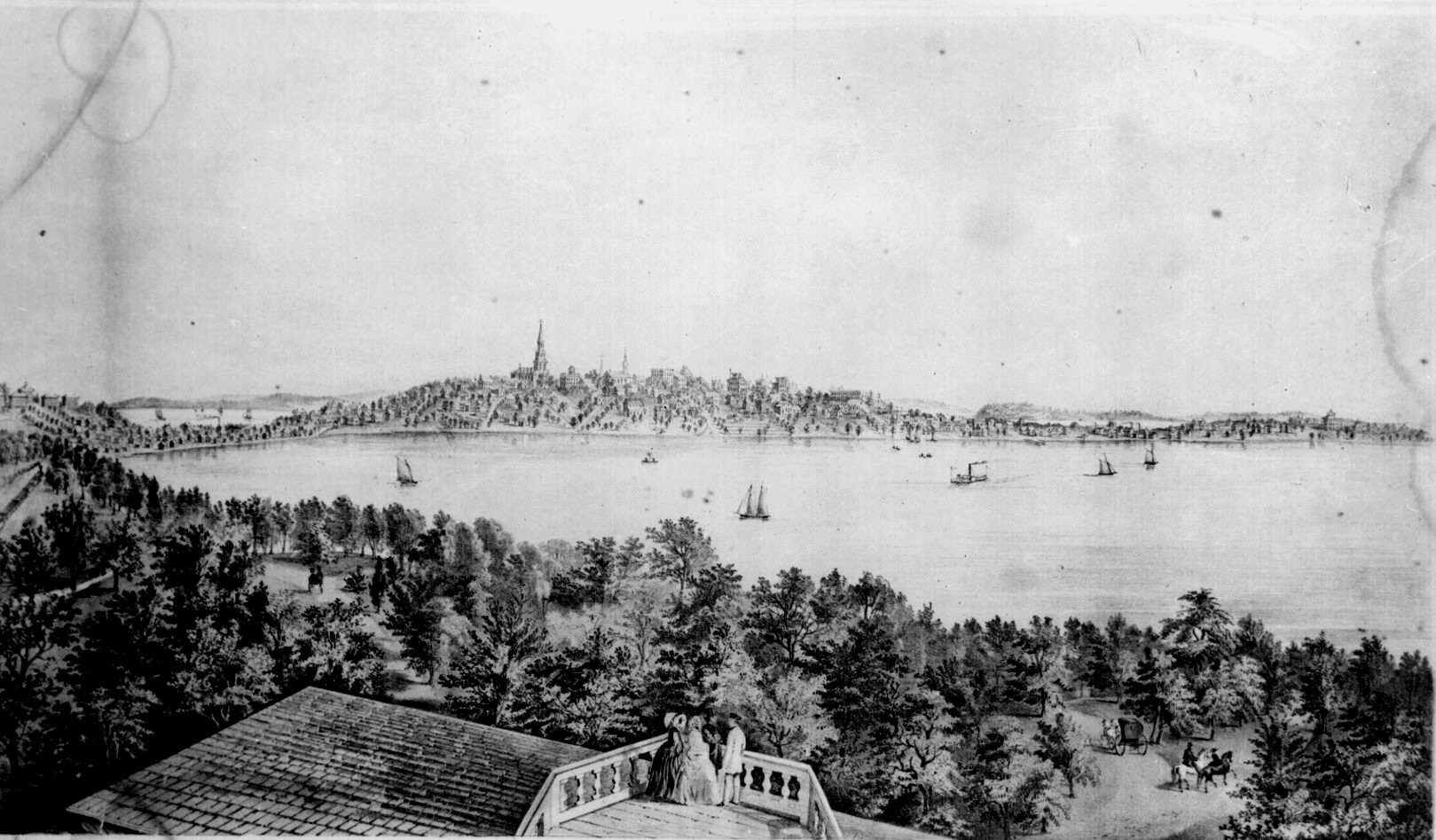 Lithograph: view of Madison, the Capital of Wisconsin. Taken from the Water Cure, South Side of Lake Monona.